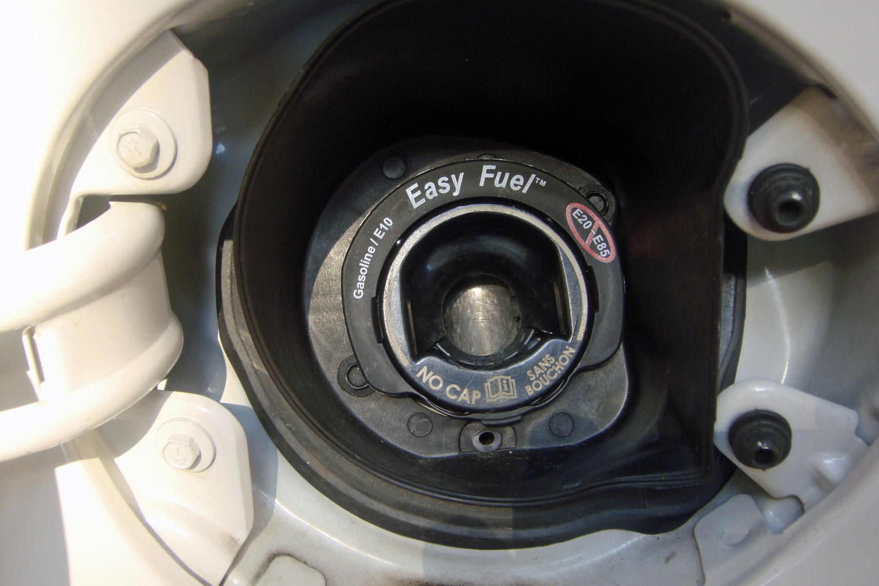 Maximum ethanol blend warning is indicated in the fuel filler (gasoline/E10) of an American car. The label warns that E20-E85 shall not be used in this vehicle.